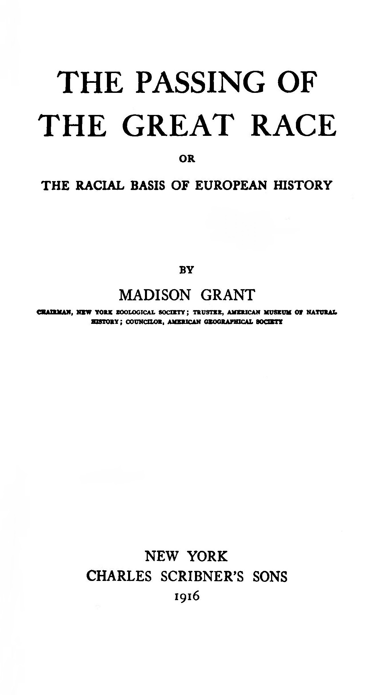 Title page 1st edition of the Book «The Passing of the Great Race»